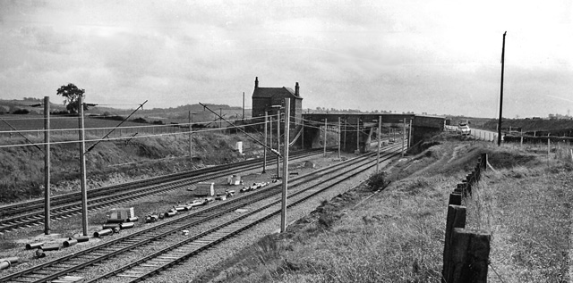 Site of Betley Road Station. View SE on Crewe - Stafford, Birmingham and London trunk route (West Coast Main Line). Station closed to passengers 1/10/45, to goods 13/3/50.